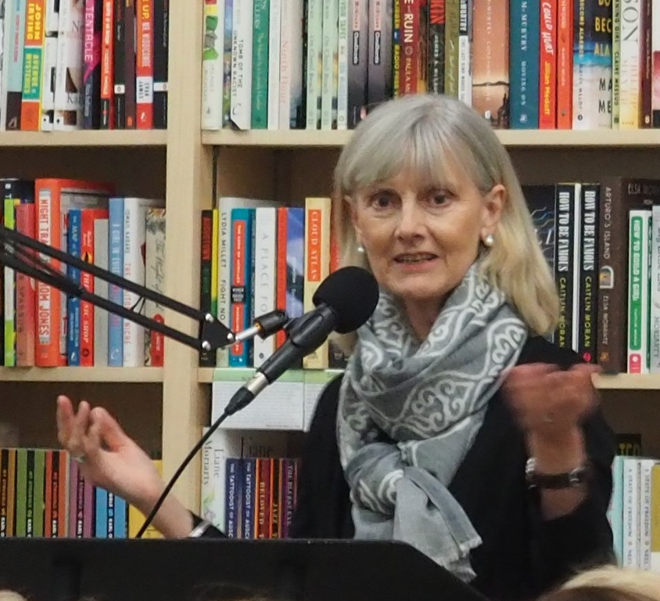 reading at Politis and Prose Washington, D.C.